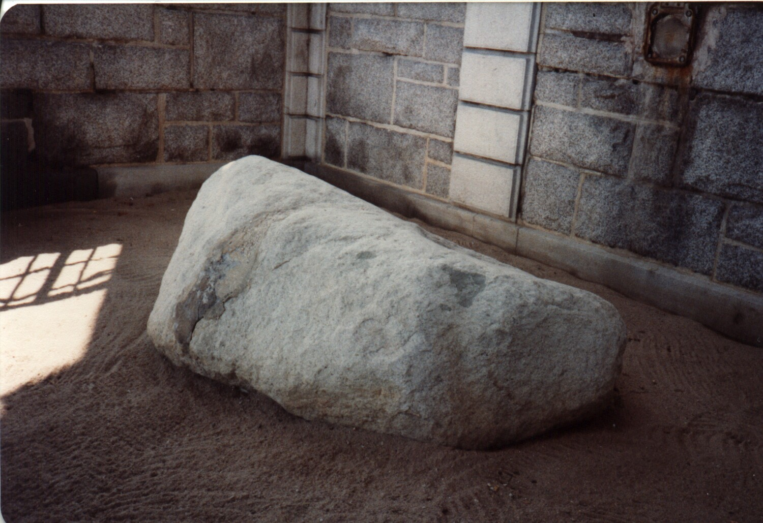 Plymouth Rock.